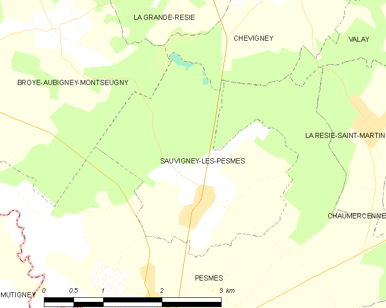 Map of French municipality